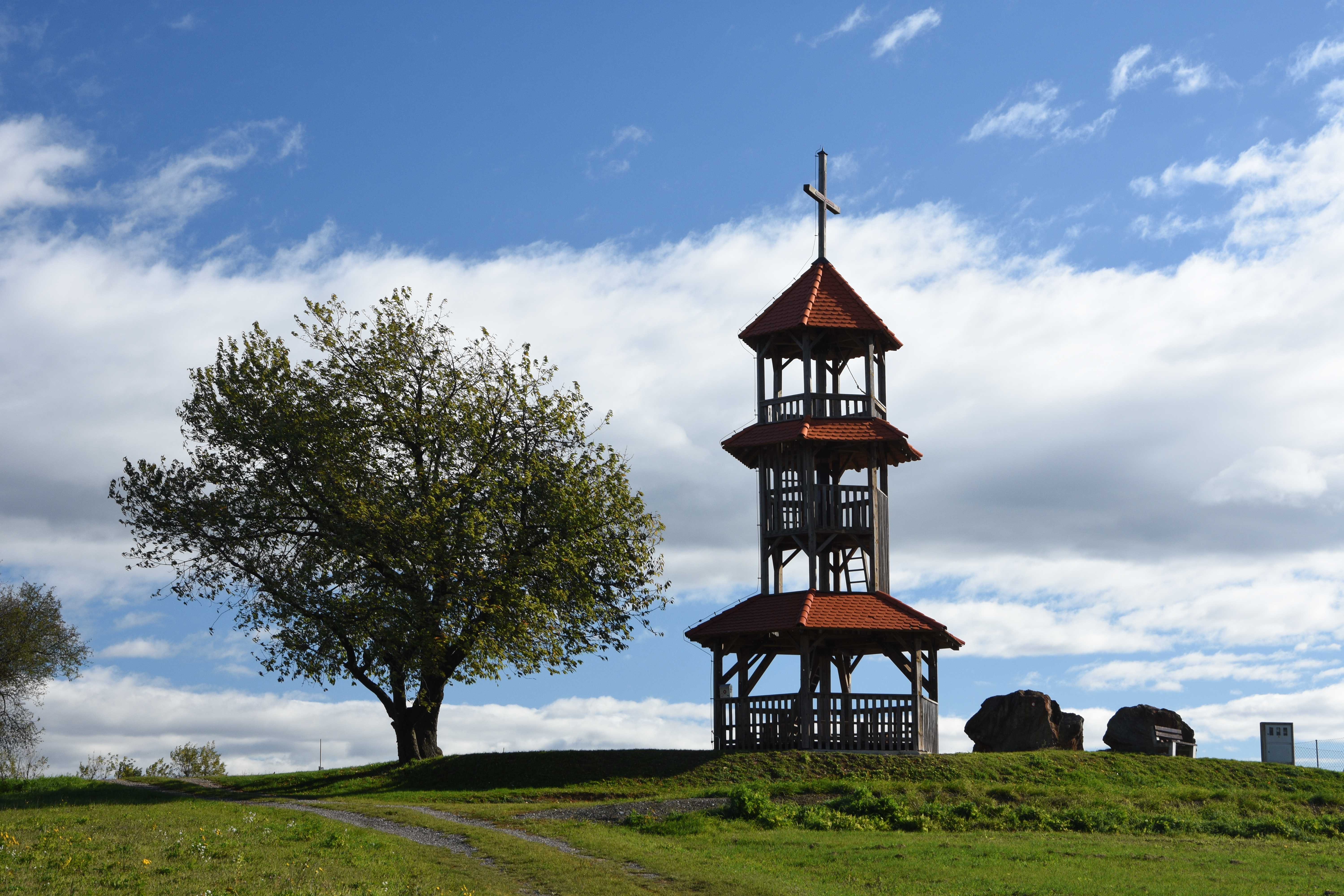 Goričko Sotinski breg